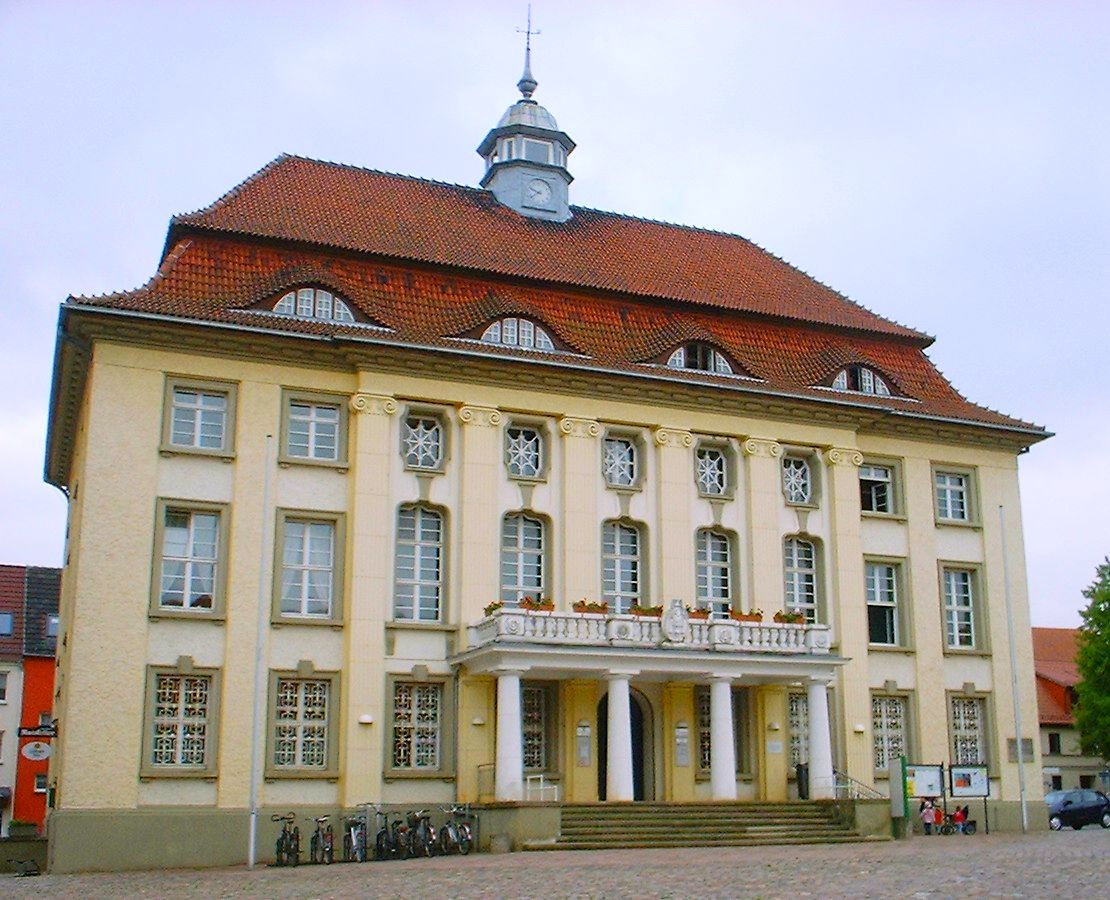 Town hall in Malchin in Mecklenburg-Western Pomerania, Germany